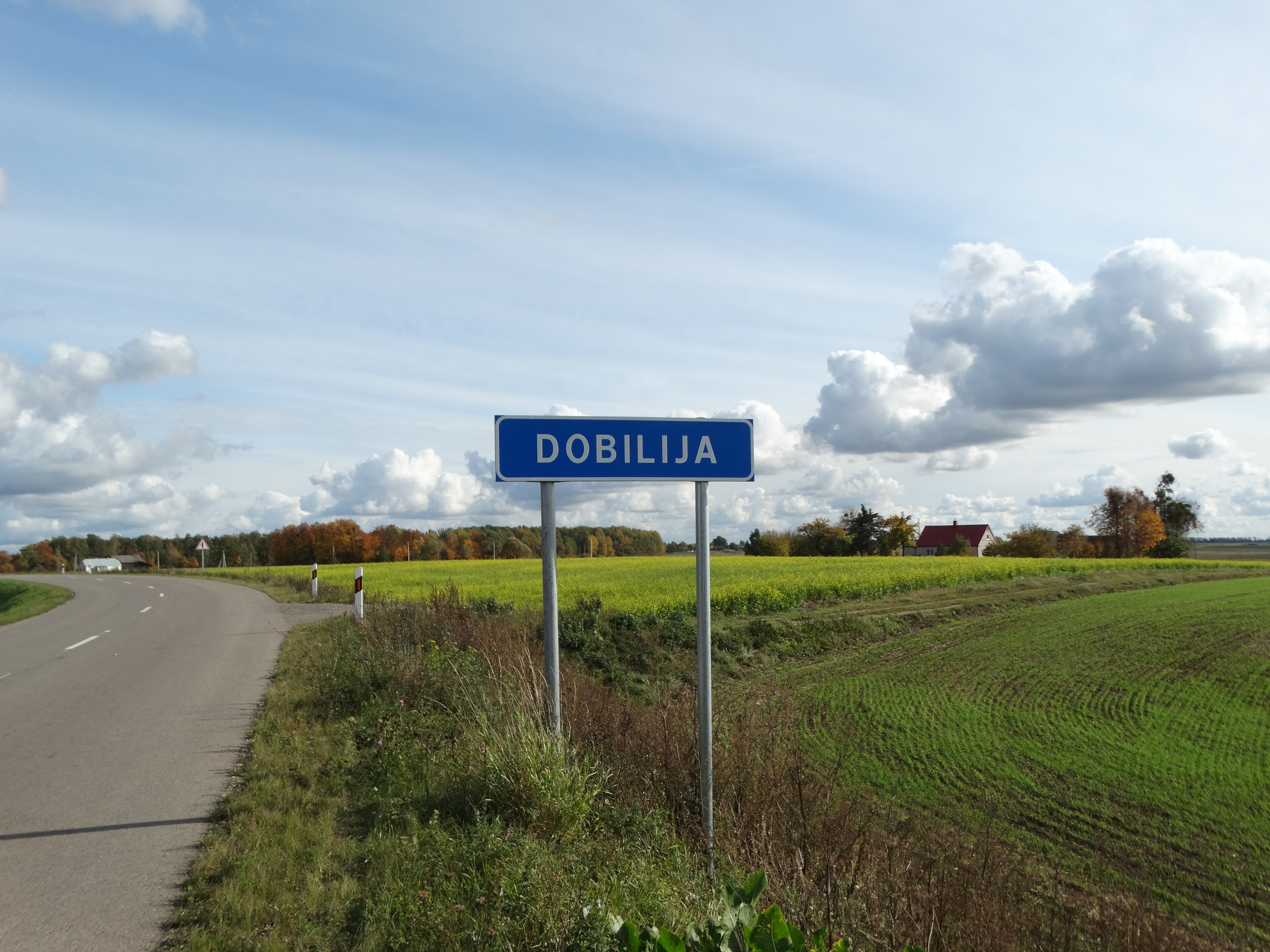 Dobilija, Kaunas district, Lithuania